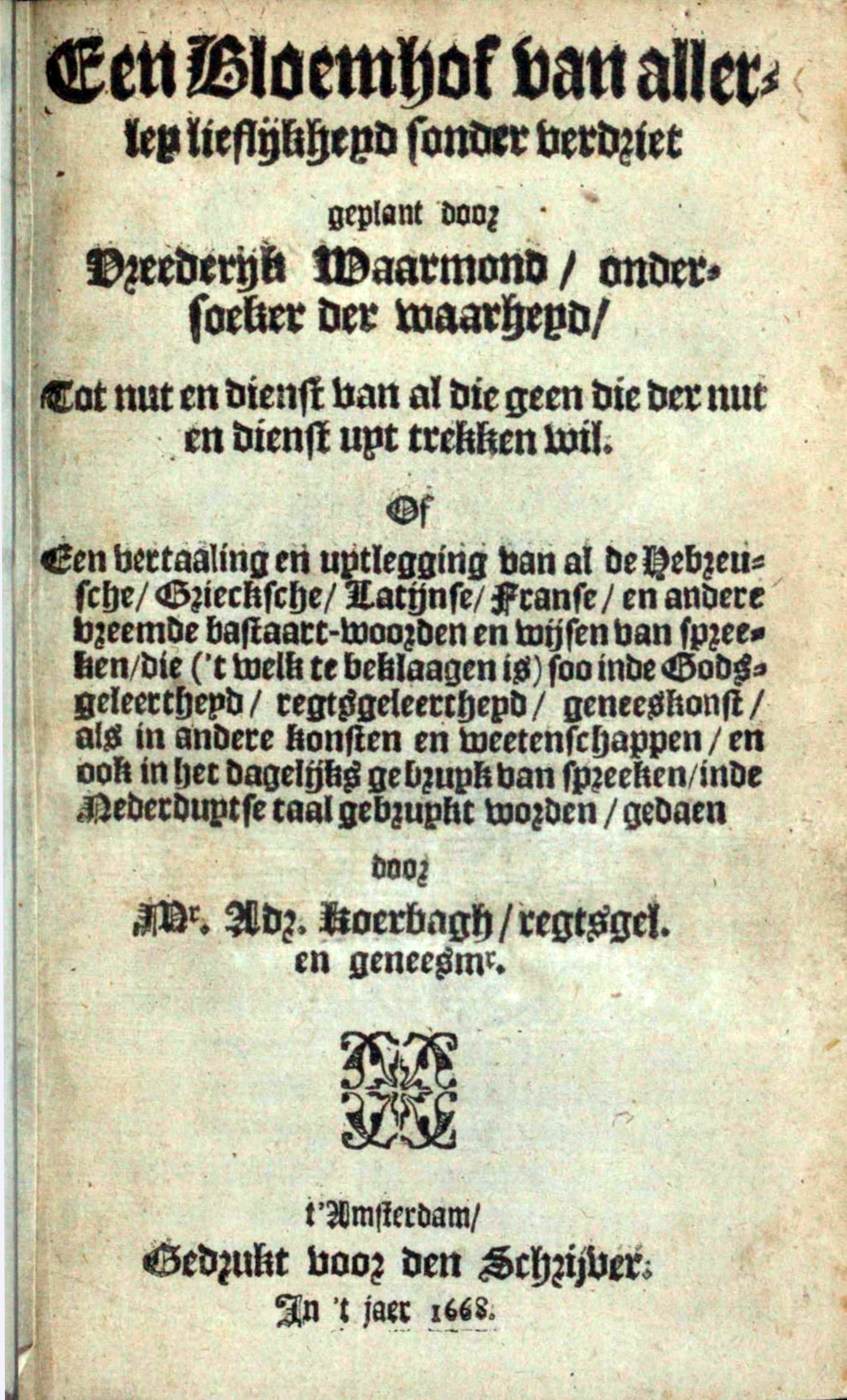 Title page of Een Bloemhof by Adriaan Koerbagh, Amsterdam 1668